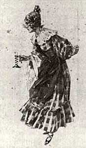 *Description: Mimi's costume for Act I of La bohème for the world premiere performance, Teatro Regio di Torino, 1 February 1893. Artist: Adolf Hohenstein (1854-1928) Provenance: Archivio Ricordi Milano